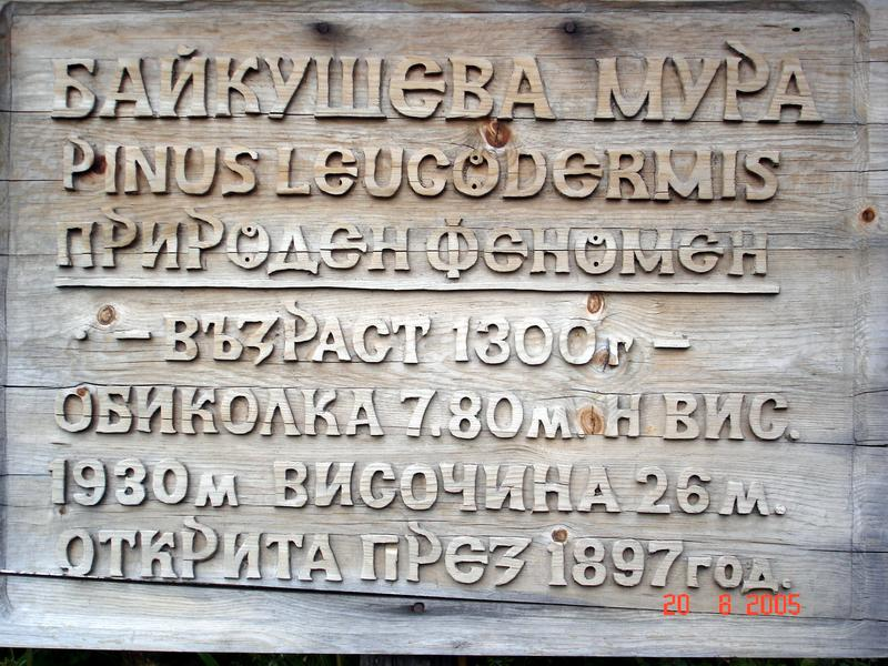 Notice about Pinus heldreichii 1300 years old - Pirin mountain in Bulgaria